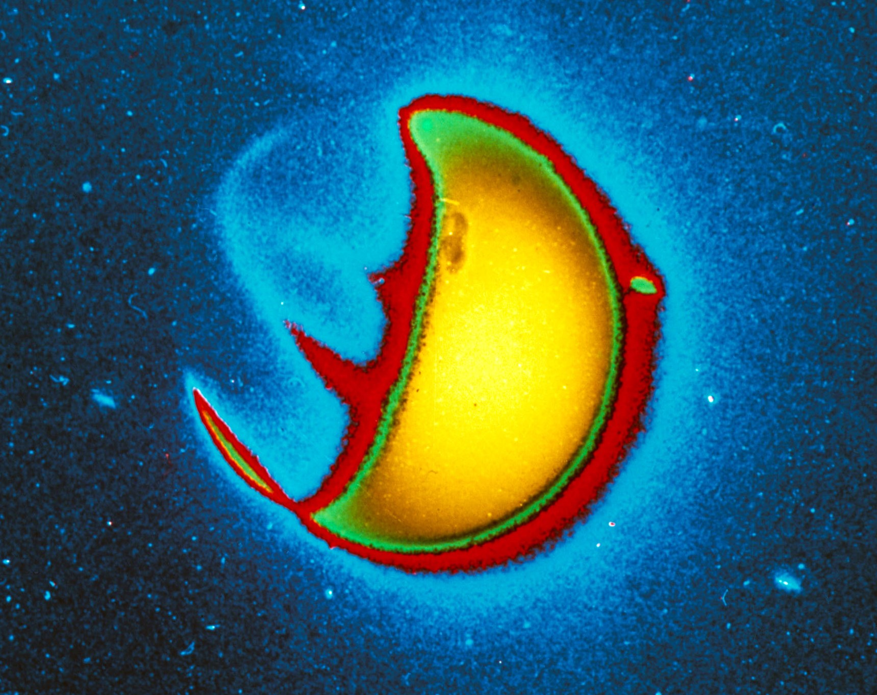 NASA Mission Science description: This unusual false-color image shows how the Earth glows in ultraviolet (UV) light. The Far UV Camera/Spectrograph deployed and left on the Moon by the crew of Apollo 16 captured this image. The part of the Earth facing the Sun reflects much UV light and bands of UV emission are also apparent on the side facing away from the Sun. These bands are the result of aurora caused by charged particles given off by the Sun. They spiral towards the Earth along Earth's magnetic field lines. NASA Spaceflight description: An artificially reproduced color enhancement of a ten-minute far-ultraviolet exposure of Earth, taken with a filter which blocks the glow caused by atomic hydrogen but which transmits the glow caused by atomic oxygen and molecular nitrogen. Note that airglow emission bands are visible on the night side of Earth, one roughly centered between the two polar auroral zones and one at an angle to this extending northward toward the sunlit side of Earth. The UV camera was operated by astronaut John W. Young on the Apollo 16 lunar landing mission. It was designed and built at the Naval Research Laboratory, Washington, D.C. EDITOR'S NOTE: The photographic number of the original black & white UV camera photograph, from which this artificially reproduced version was made, is AS16-123-19657.